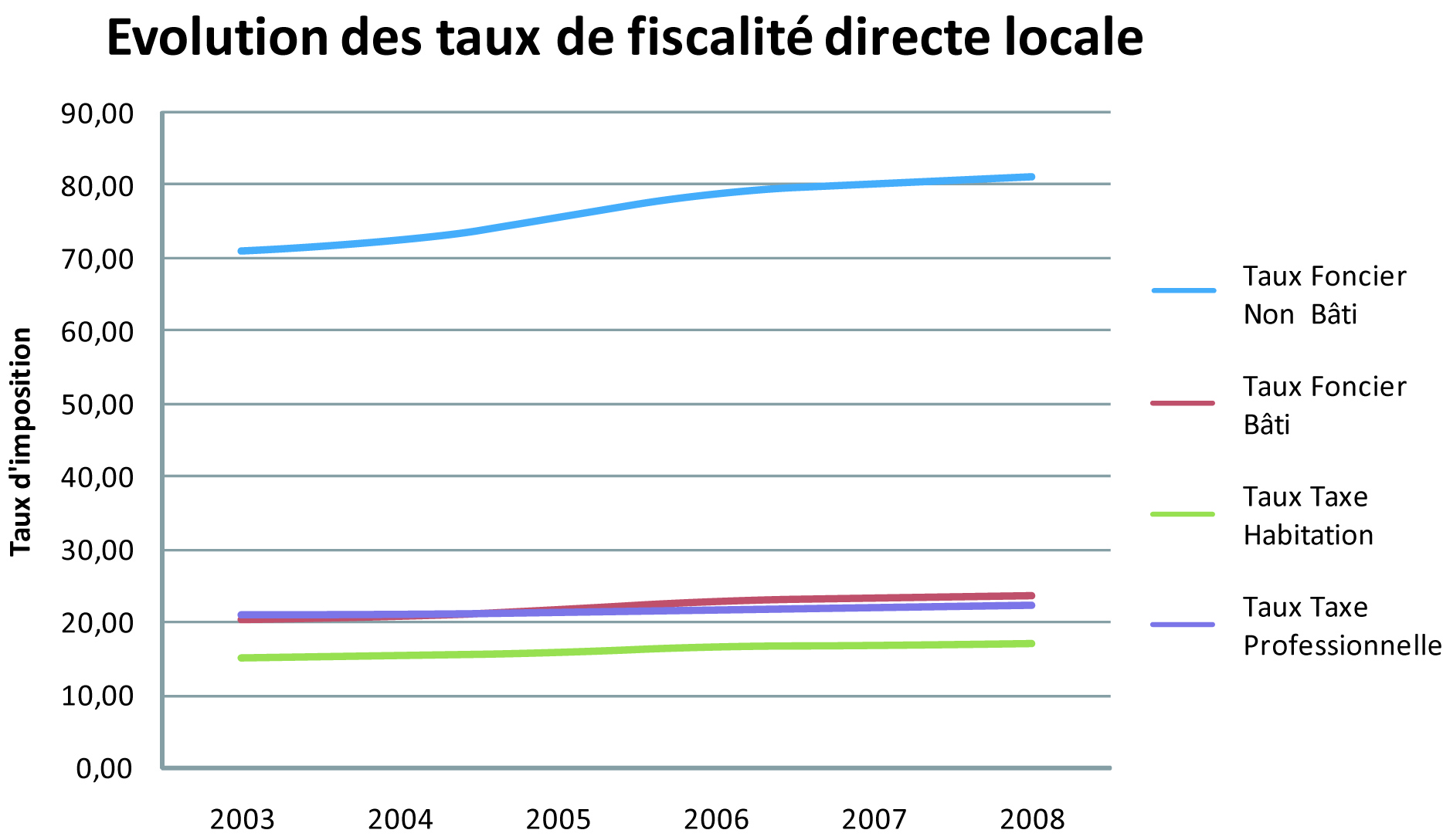 Mouriez local rates taxation's evolution from 2003 to 2008